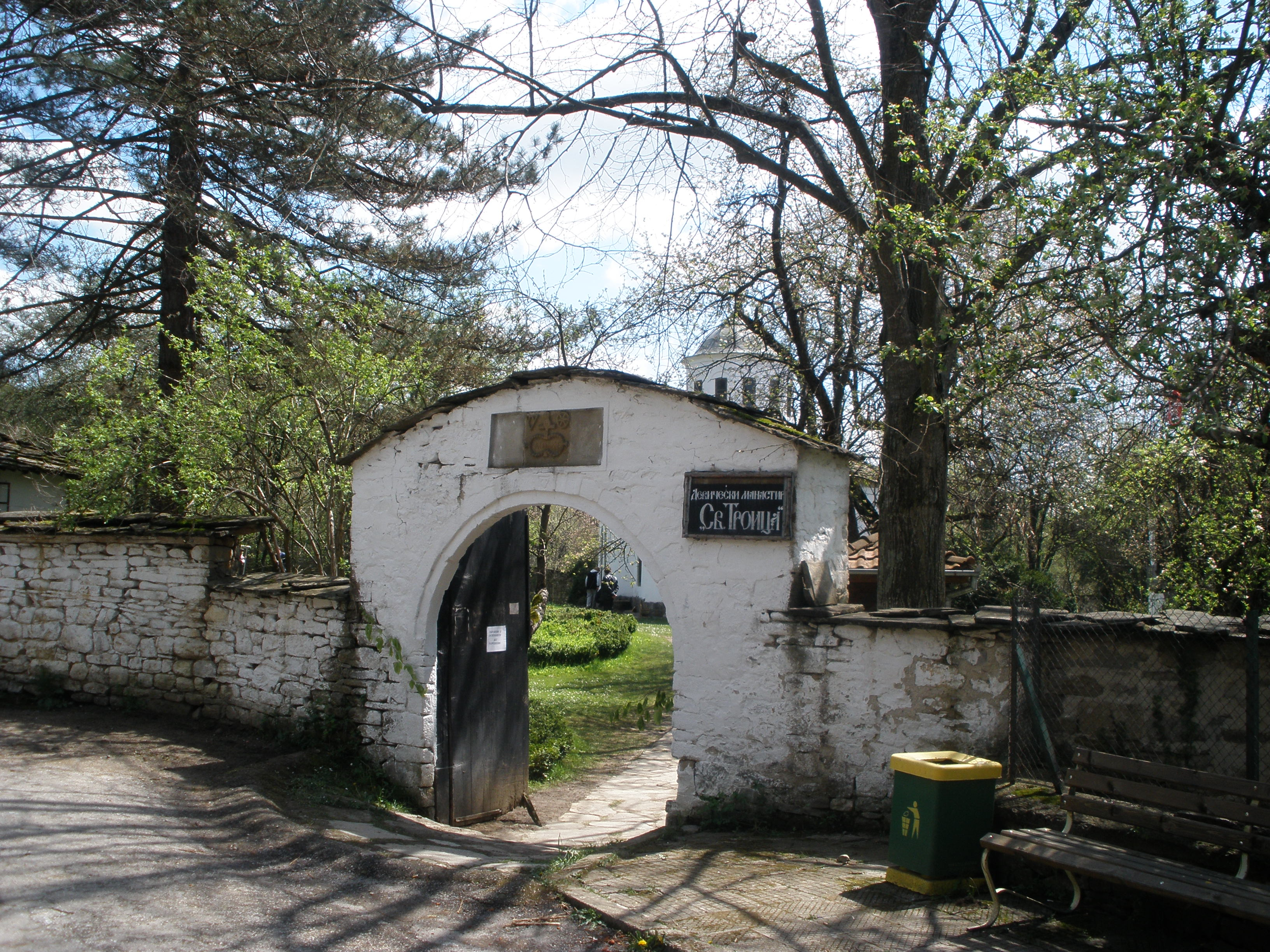 Novoselski monastery